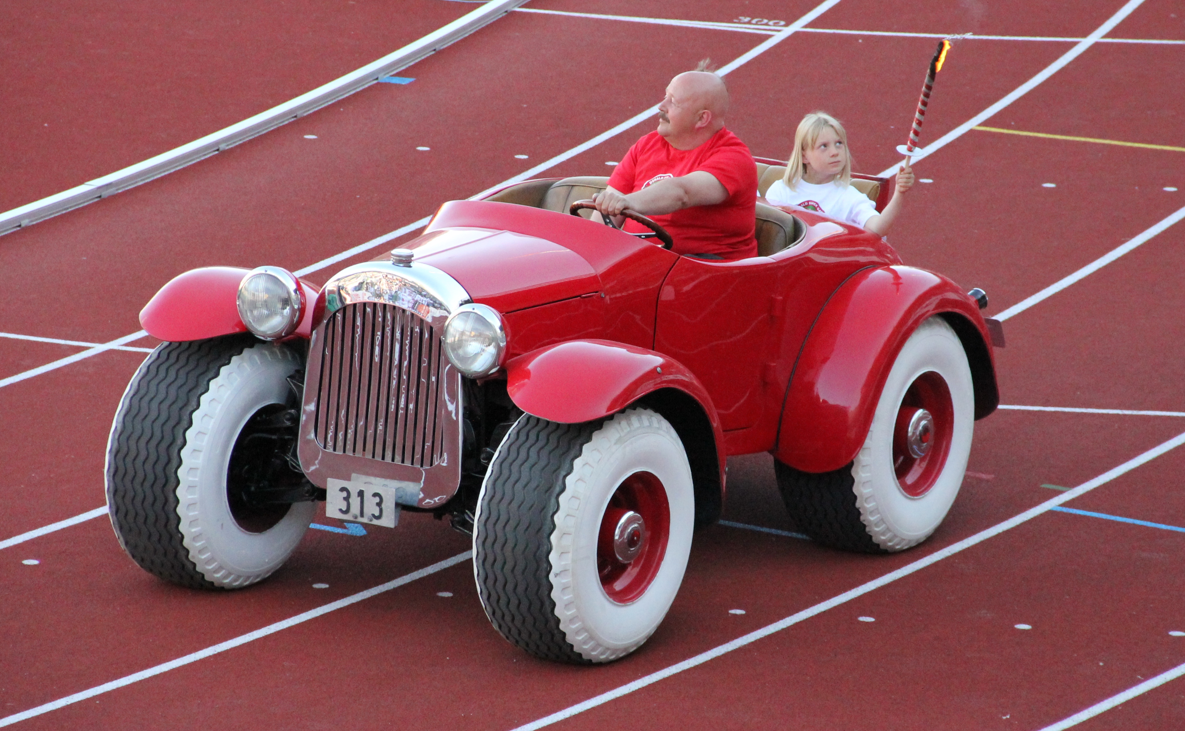 Donald Ducks car, copy at show during Bislett Games 2010